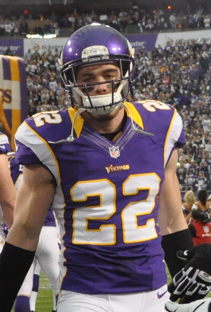 Minnesota Vikings safety Harrison Smith before a game in 2012